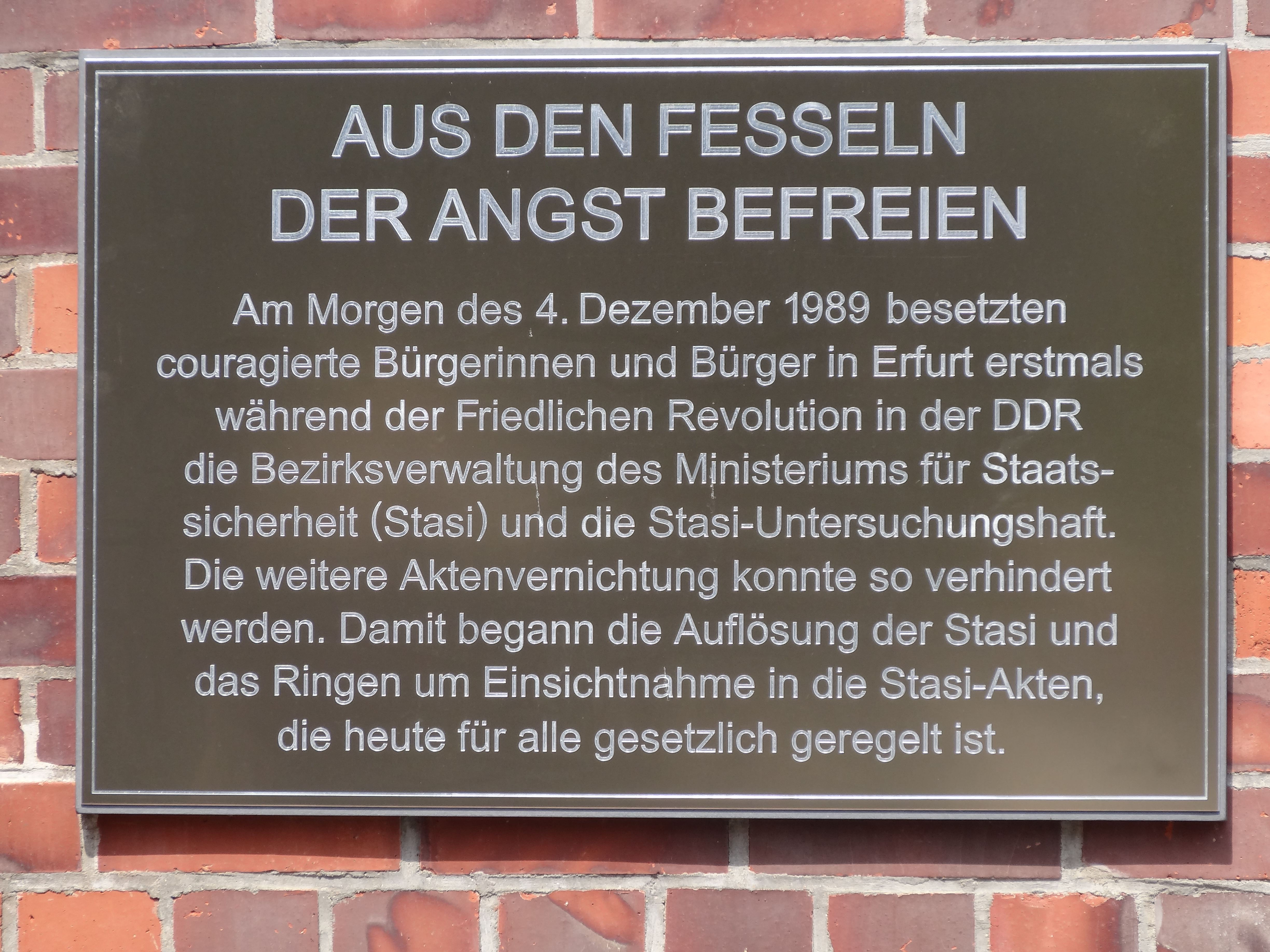 Plaque at the Memorial and Education Centre Andreasstraße, Erfurt